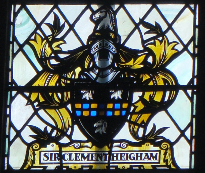 Heraldic Coat of Arms of Sir Clement Higham in window at Lincoln's Inn, London